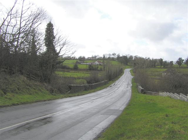 Road at Drumcreen Heading south-west to the village of Ballinamallard.